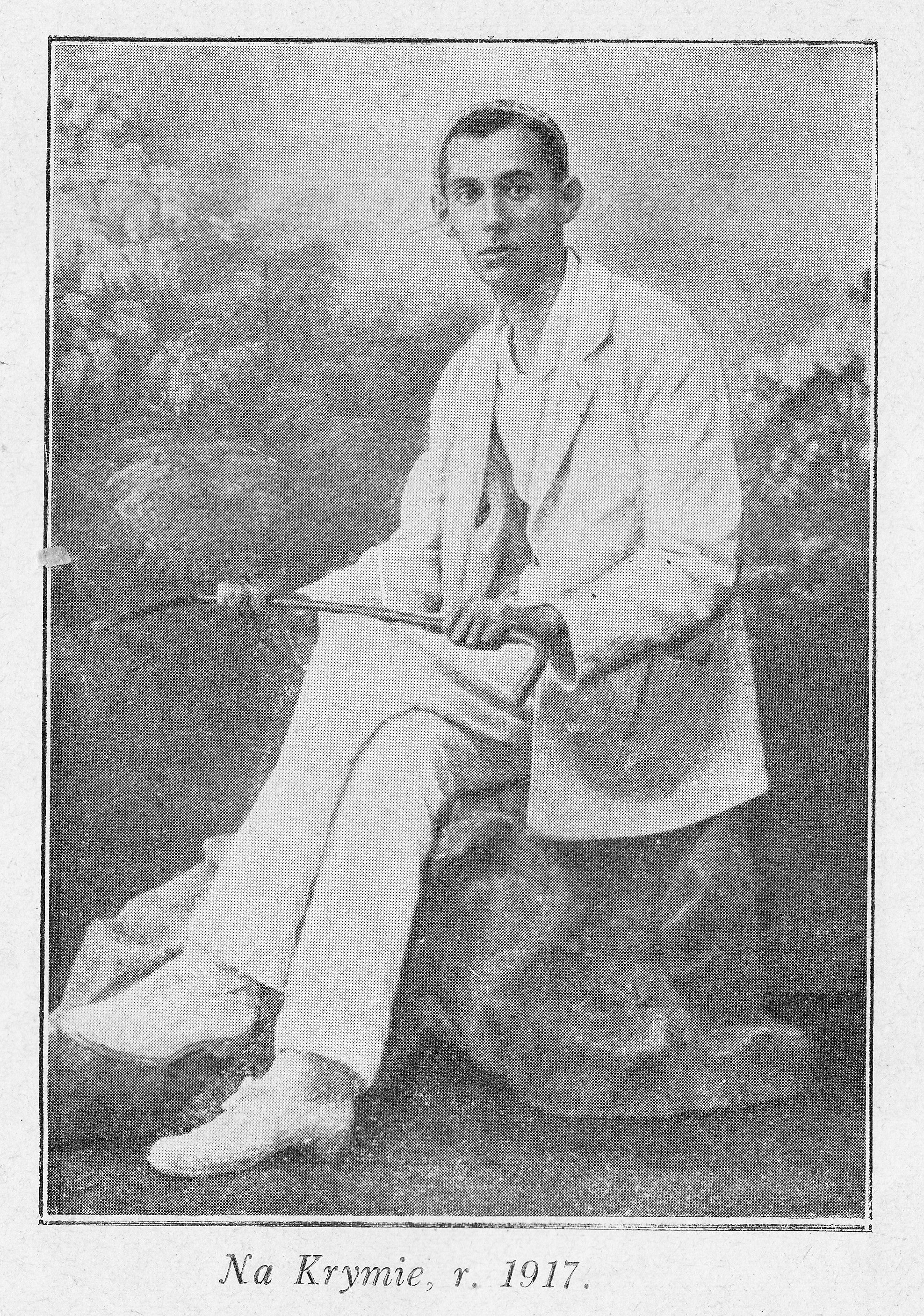 Zusman Segalovitsh in Crimea (1917)